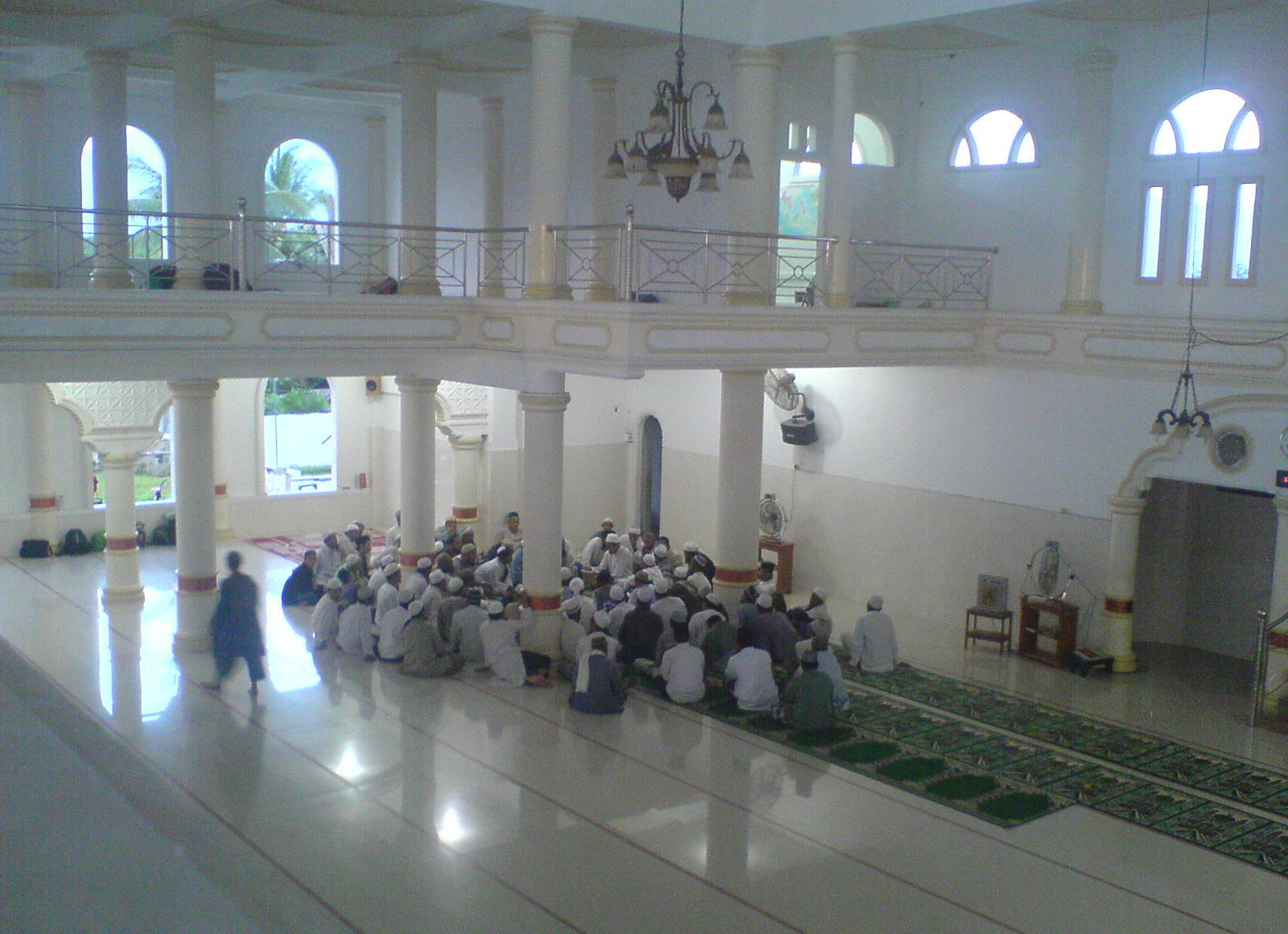 Tablighi Jamaat center of Aceh in Cot Goh, Mon Tasiek, Aceh Besar Regency